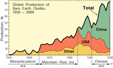 Global rare earth element production (1 kt=10^6 kg) from 1950 through 2000